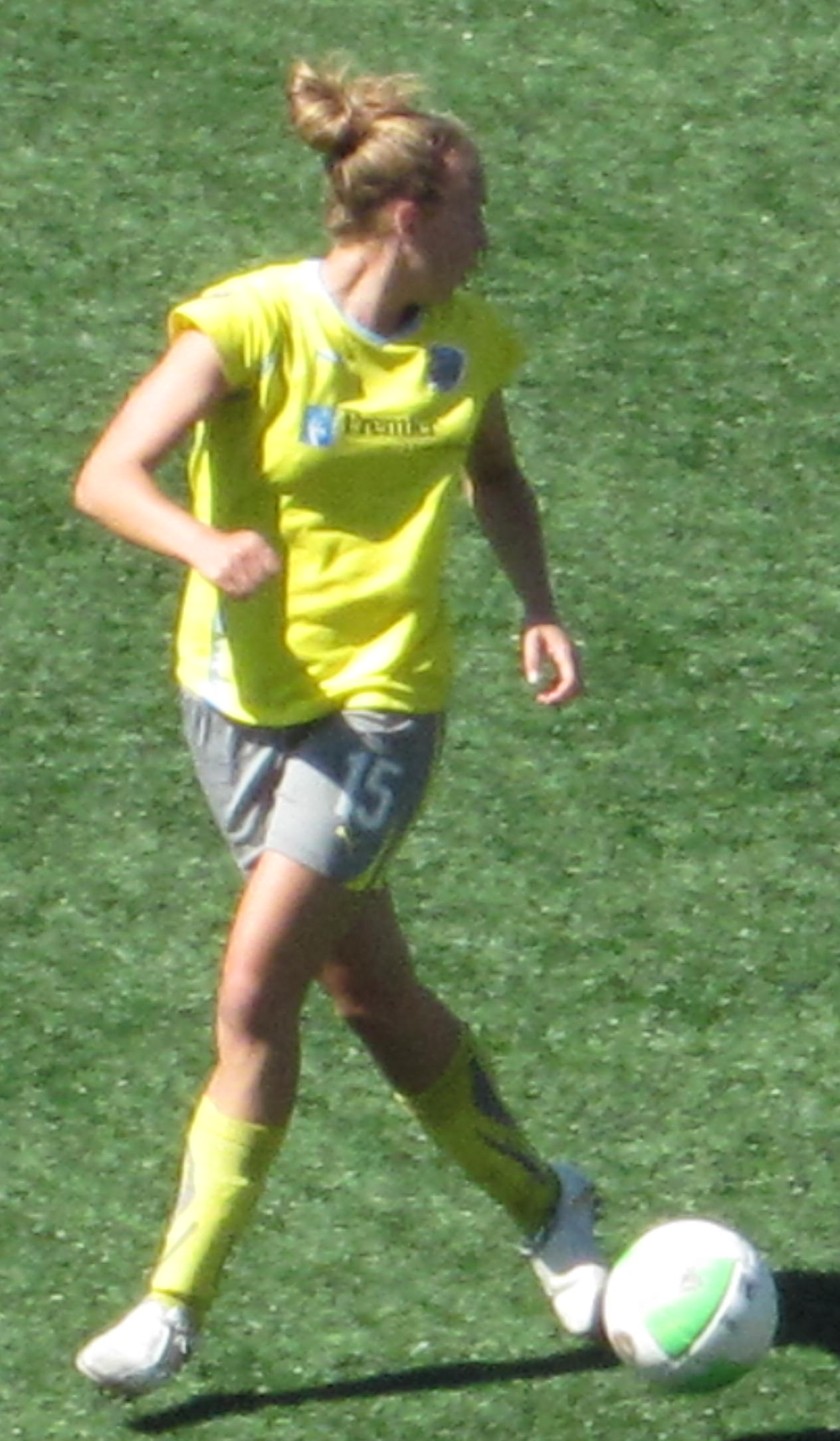 Philadelphia Independence player Nikki Krzysik at the 2010 WPS Championship at Pioneer Stadium in Hayward against the FC Gold Pride. The Gold Pride won 4-0.